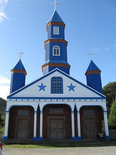 The church in Tenaun on the island of Chiloé in Chile.